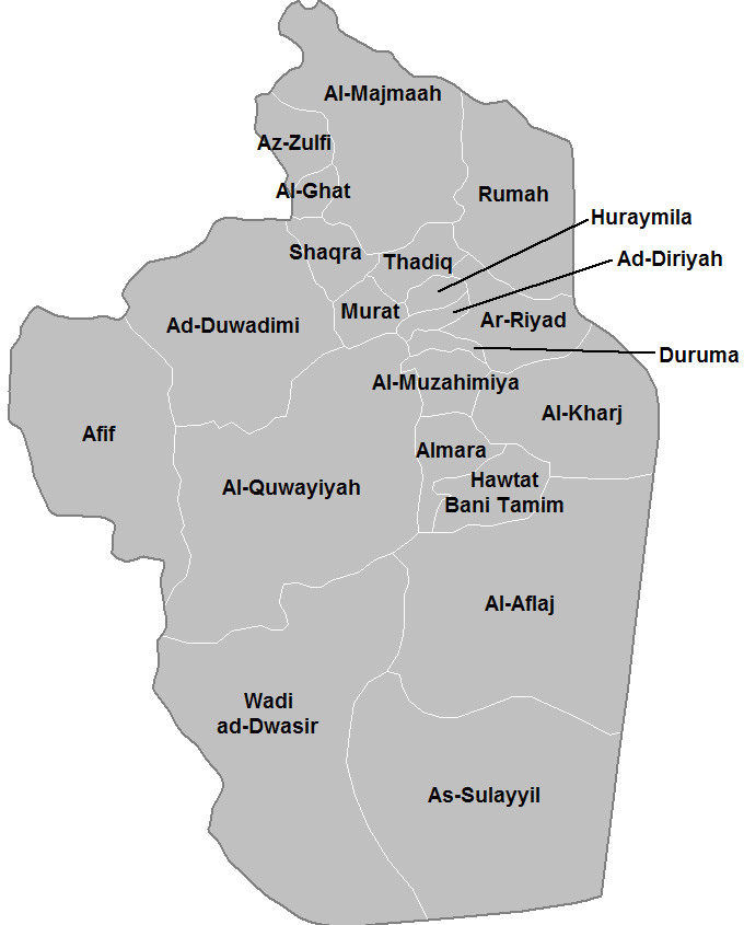 Map of the governorates of the Riyadh emirate of Saudi Arabia.